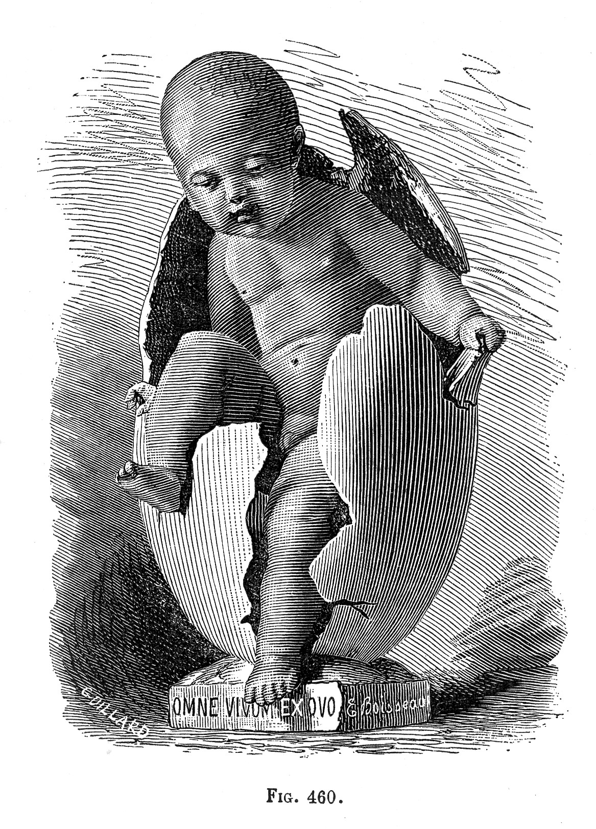 A new born child stepping out of a broken egg Wellcome Images Keywords: Baby; Birth; Obstetrics; Parturition